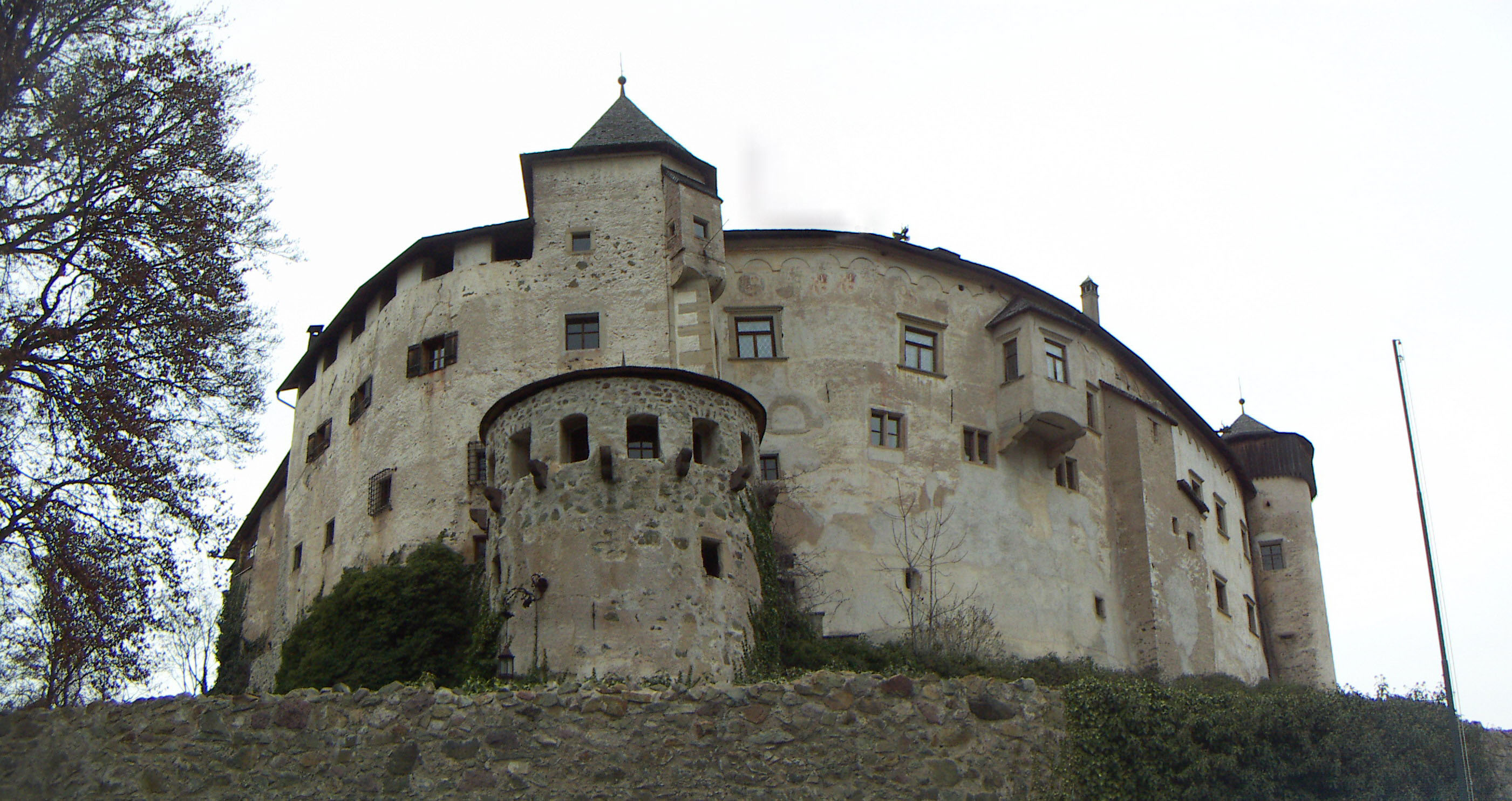 Prösels Castle in Völs am Schlern